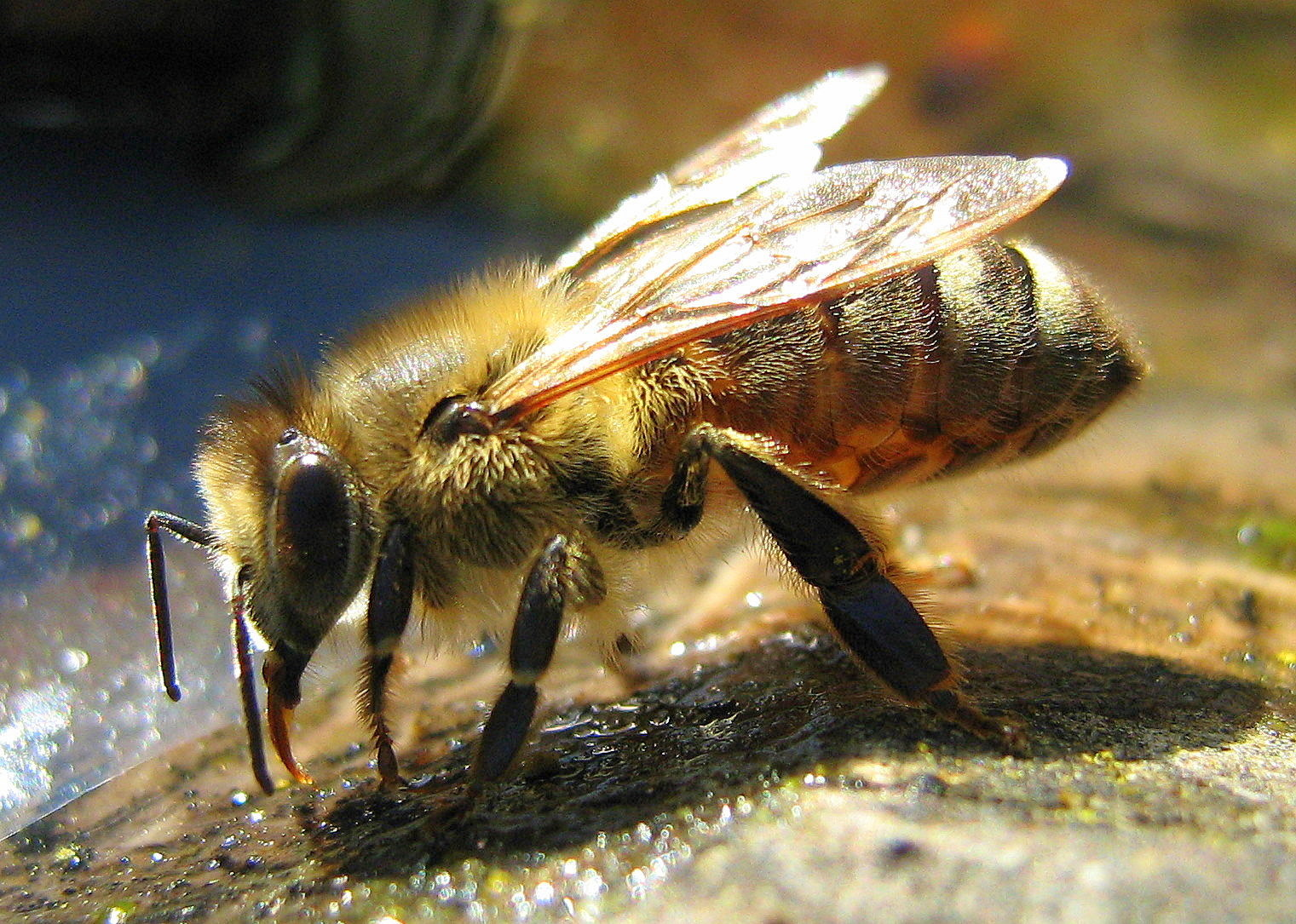 A bee drinking water. From the apiary of Mr. Stanisław Kosiorek (Poland)